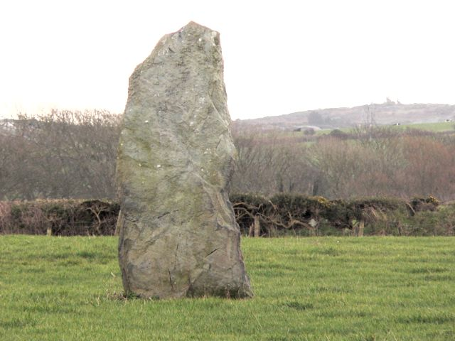 Pen Yr Orsedd, Standing Stone, Llanfairynghornwy. A view of the Pen Yr Orsedd Standing Stone, near Llanfairynghornwy.